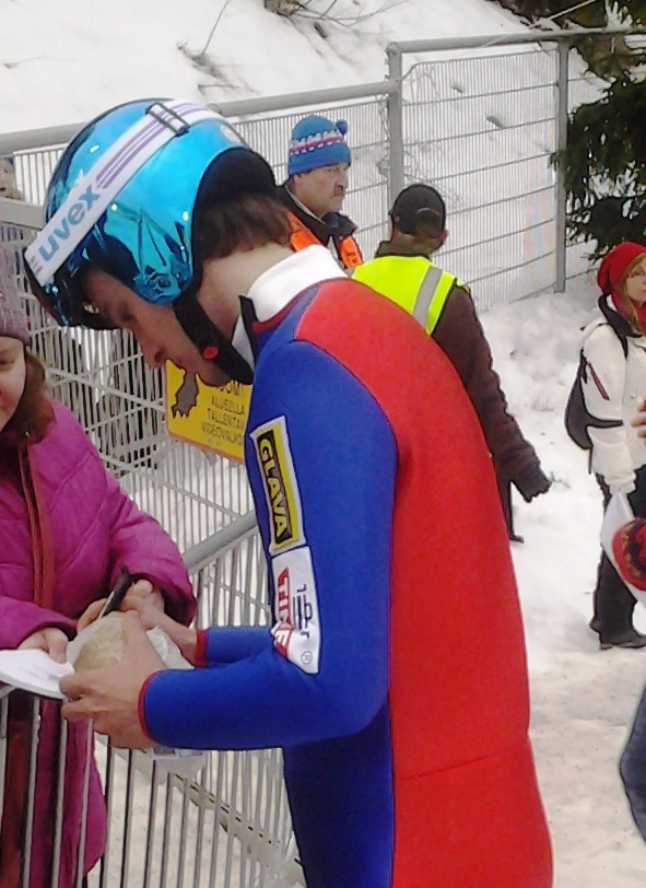 Norwegian nordic combined skier Jørgen Graabak at Lahti Ski Games 2014.